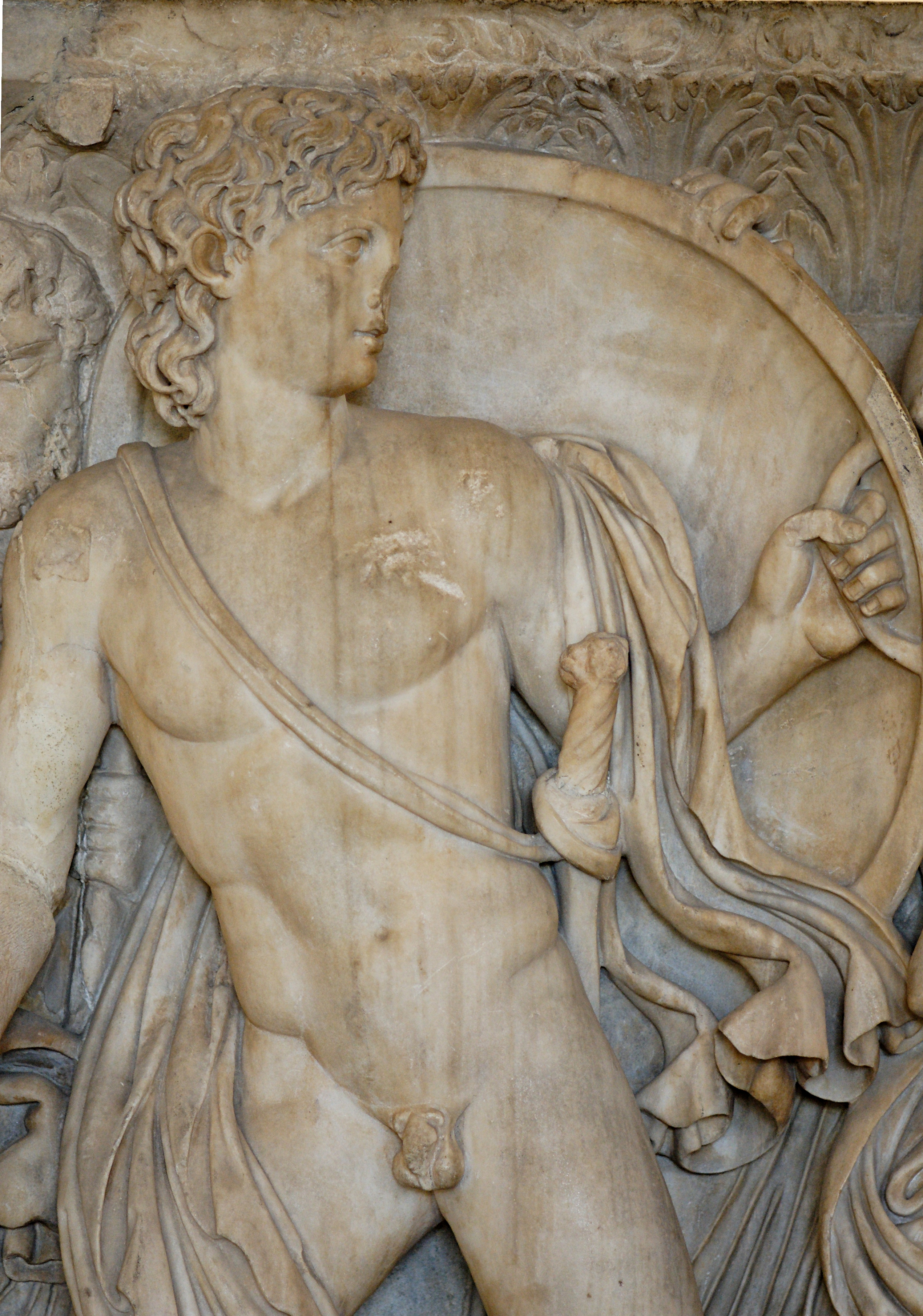 Achilles at the court of King Lycomedes, detail. Marble, Greek artwork, ca. 240 CE. From Rome (?).